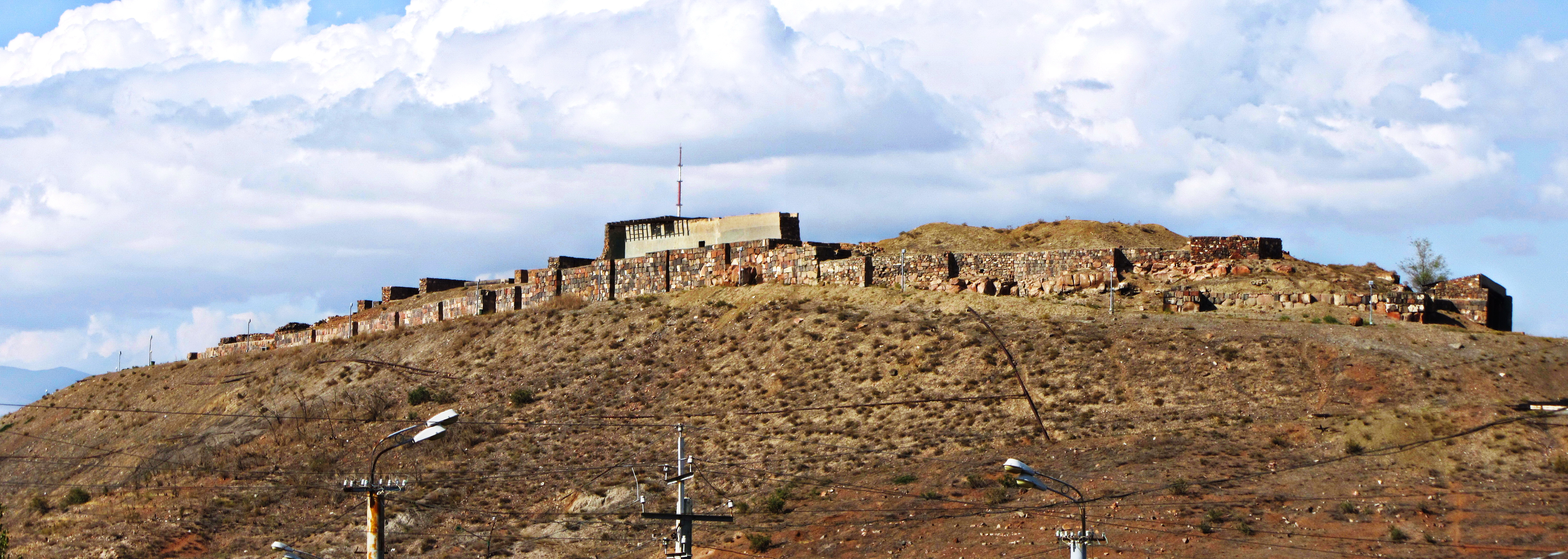 Urartian fortress Erebuni, 8c. BC, Yerevan, Armenia